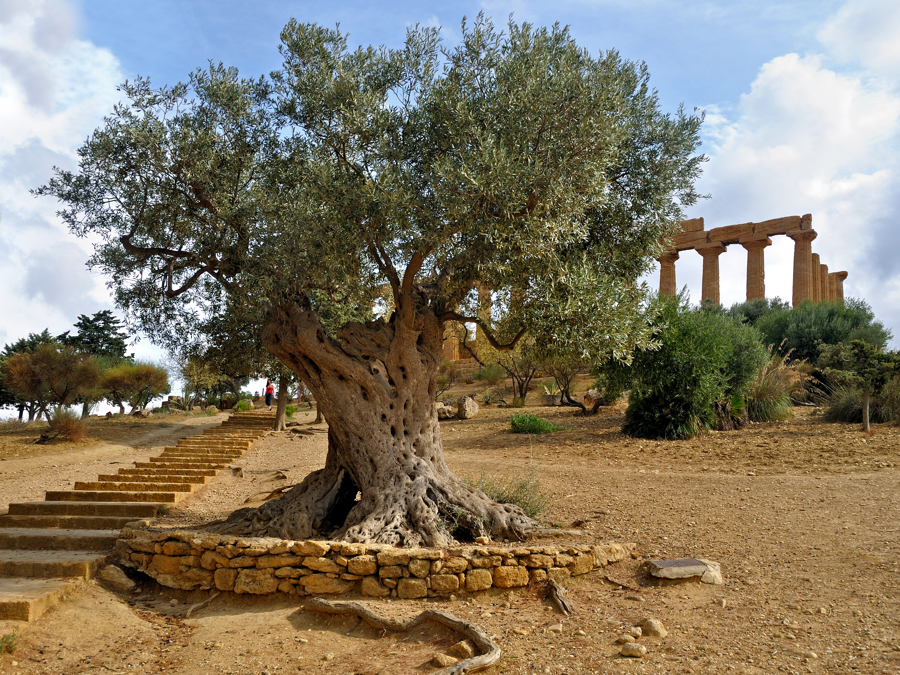 Old olive tree near the Temple of Hera in the Valley of the Temples. Agrigento. Sicily, Italy